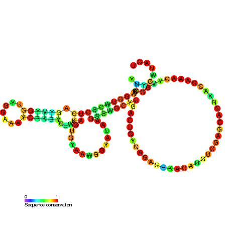 Secondary structure image for PK-G12rRNA non coding RNA (RF01118). Nucleotide colouring indicates sequence conservation between the members of this family.